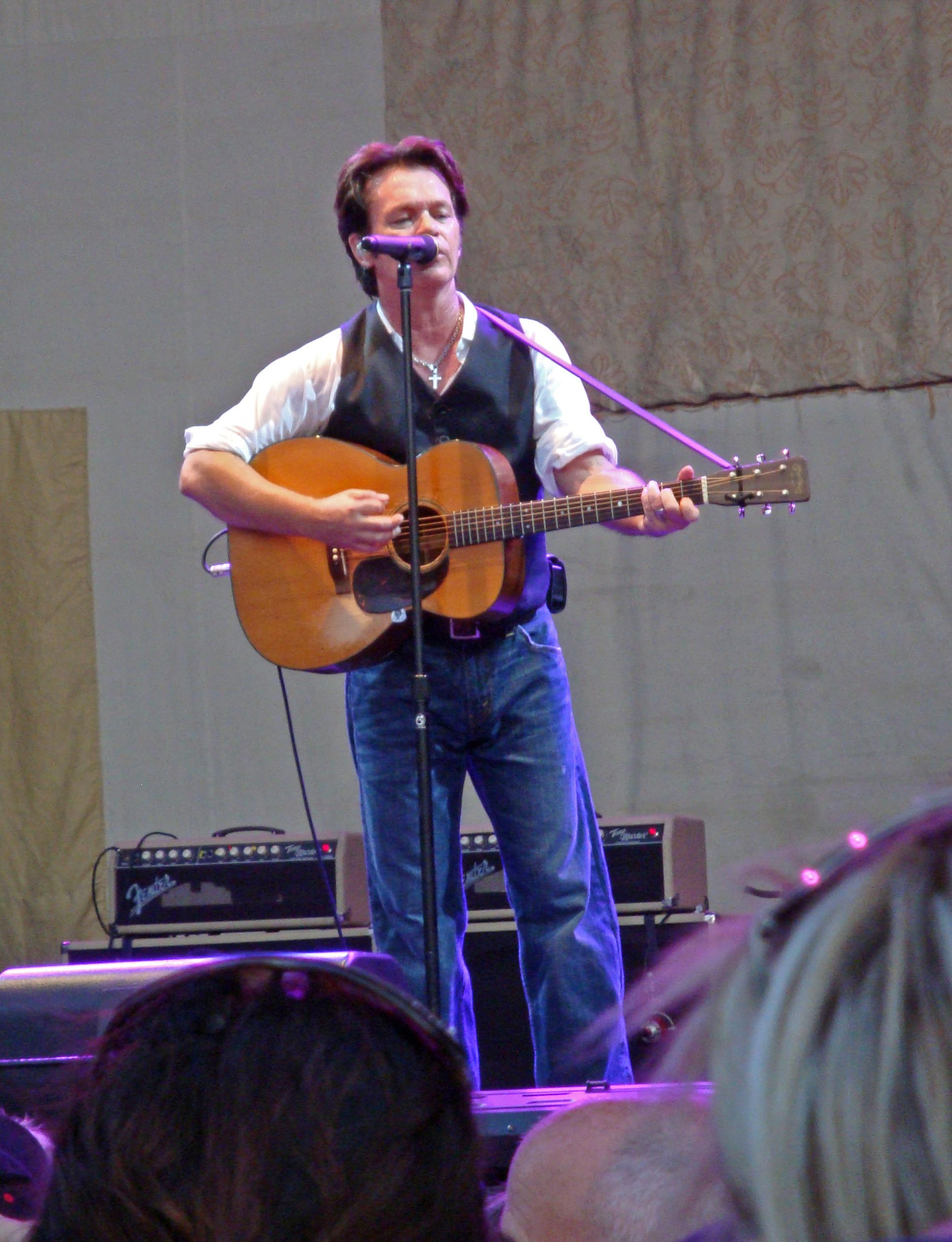 John Mellencamp performing at the Harbor Park in Norfolk, VA